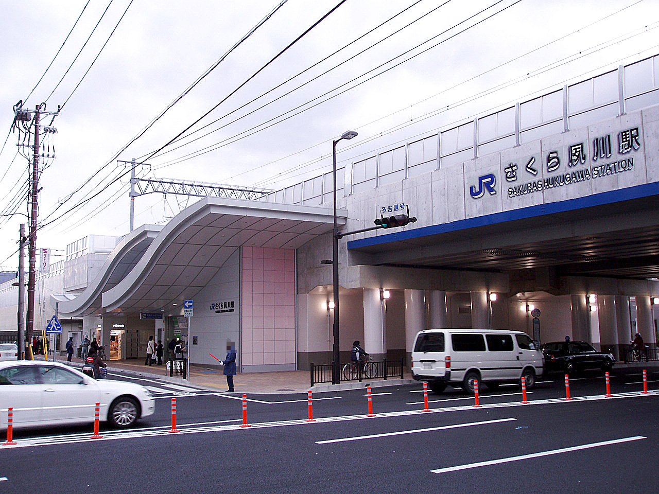 West Japan Railway Tōkaidō Main Line（JR Kōbe Line） Sakurashukugawa Station Building & Hyōgo Prefecture Route 82 Osawa-Nishinomiya Line 西日本旅客鉄道 東海道本線（JR神戸線） さくら夙川駅駅舎と兵庫県道82号大沢西宮線